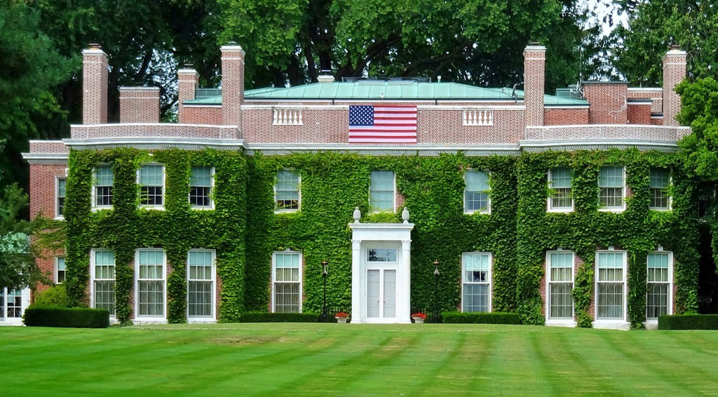 Woodley Green, Grosse Pointe, Michigan